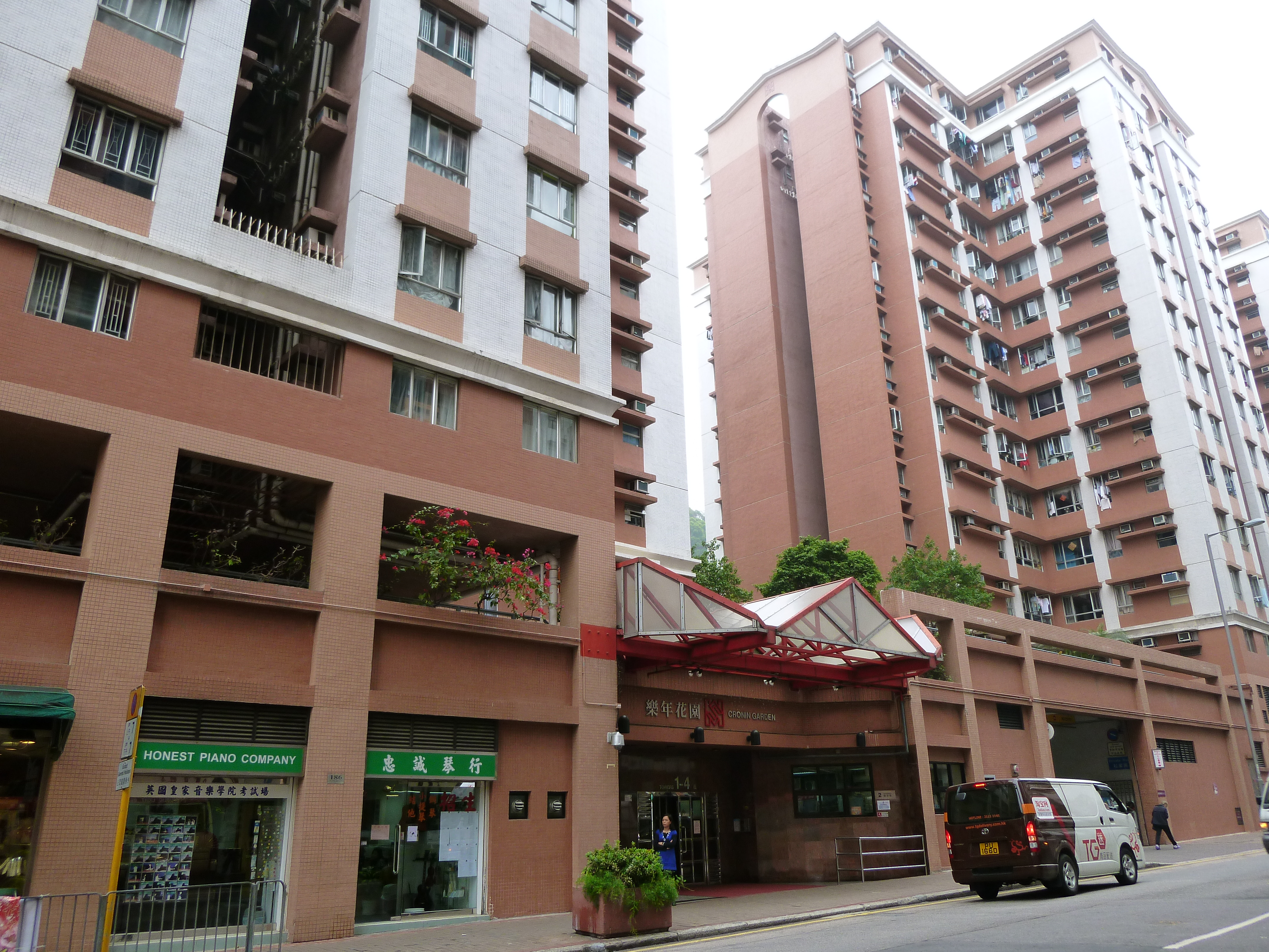 Cronin Garden (2-2A Po On Road, Sham Shui Po, Kowloon, Hong Kong)